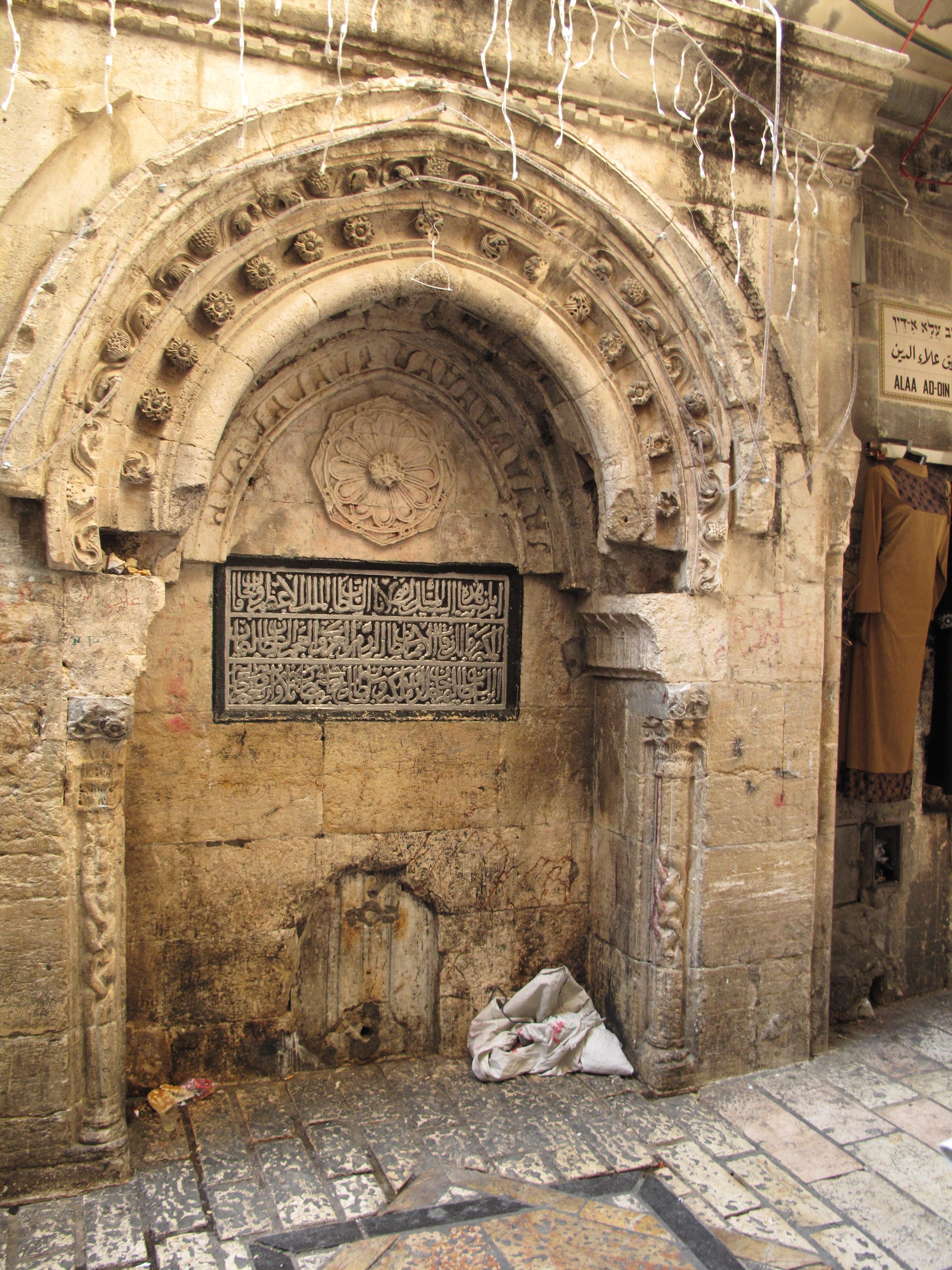 Jerusalem, Israel.